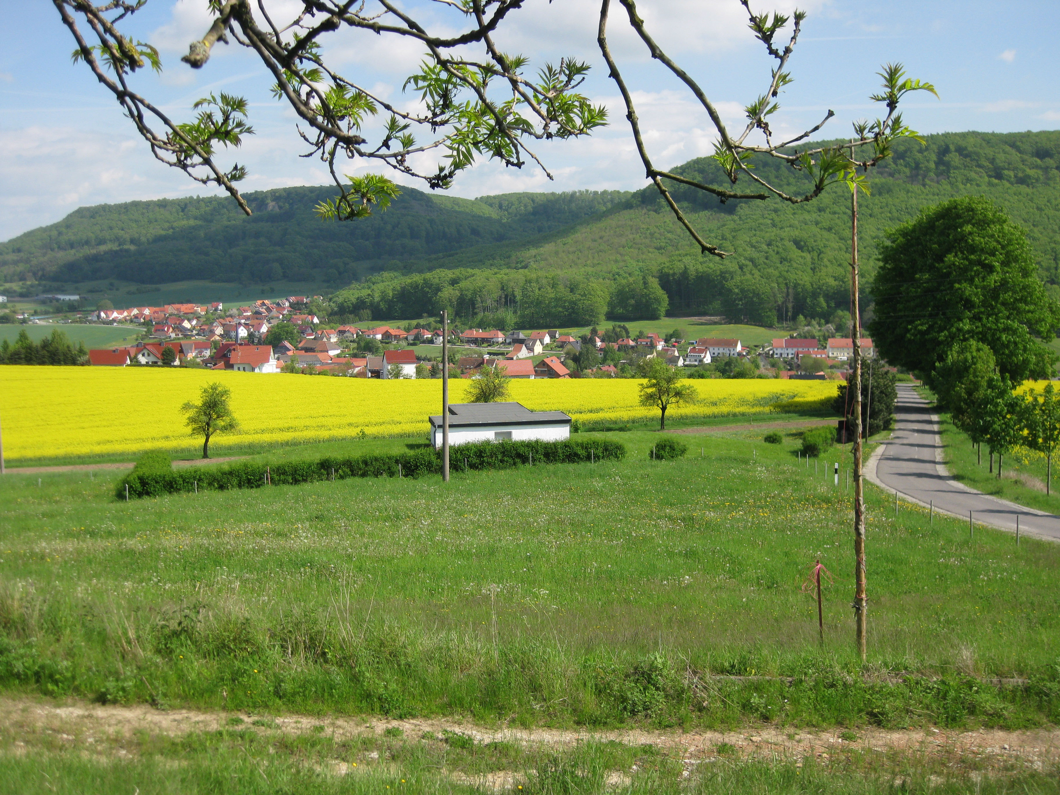 Holungen Ohmmountains